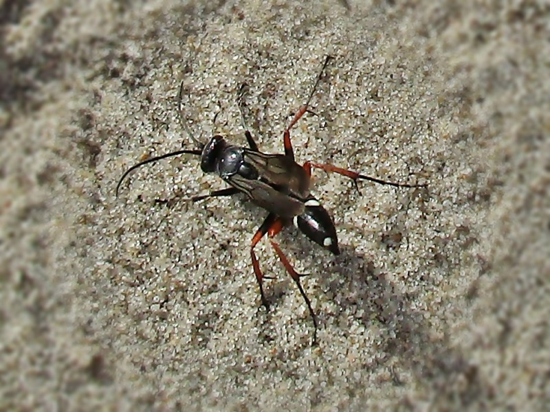 Episyron rufipes (Pompilidae sp.), Texel, the Netherlands